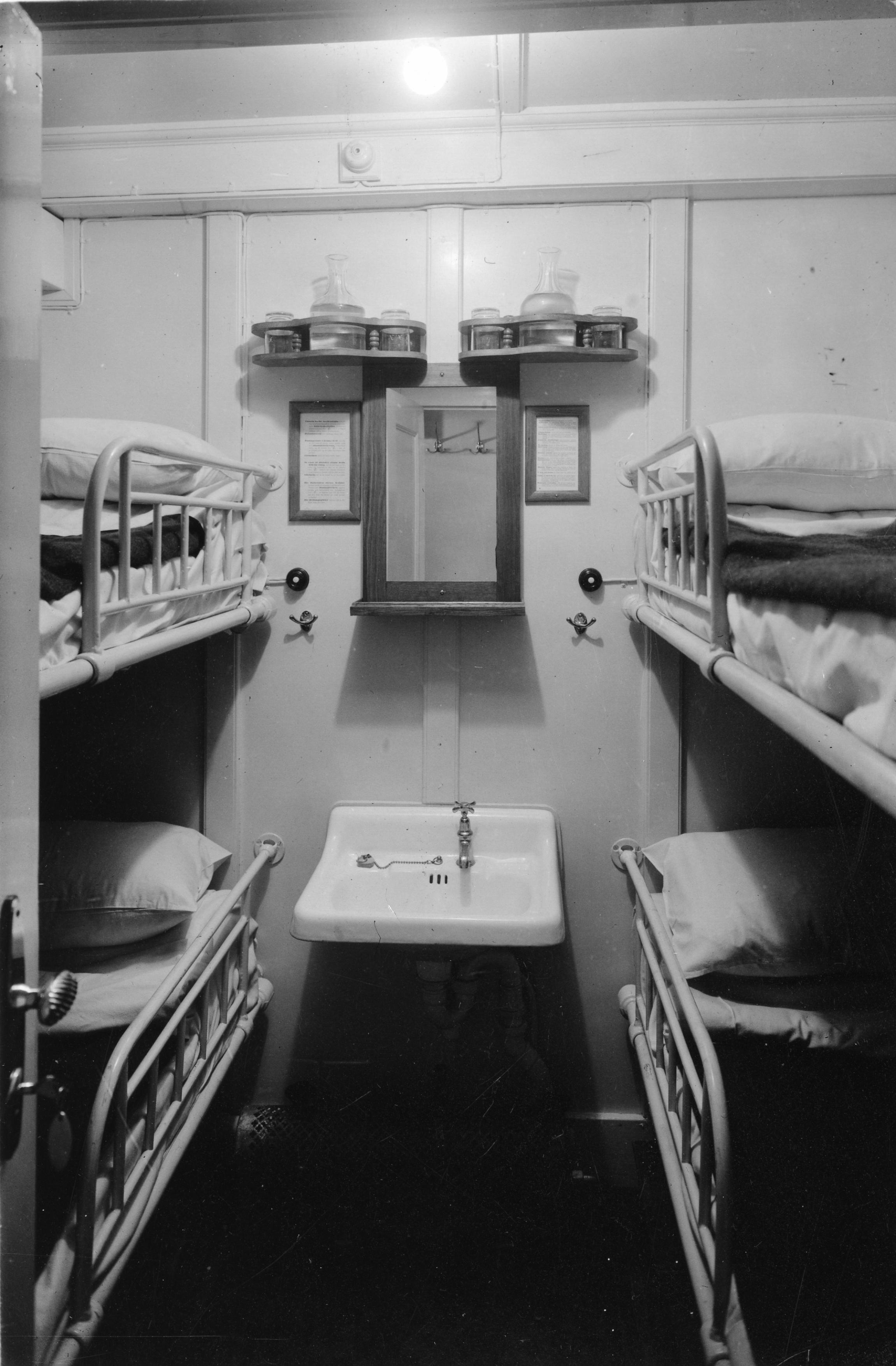 Tourist class cabin onboard s/s Arcturus, 1899-1957